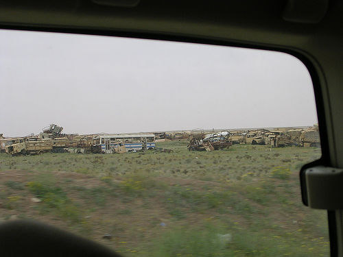 The highway of death in Kuwait 2005.